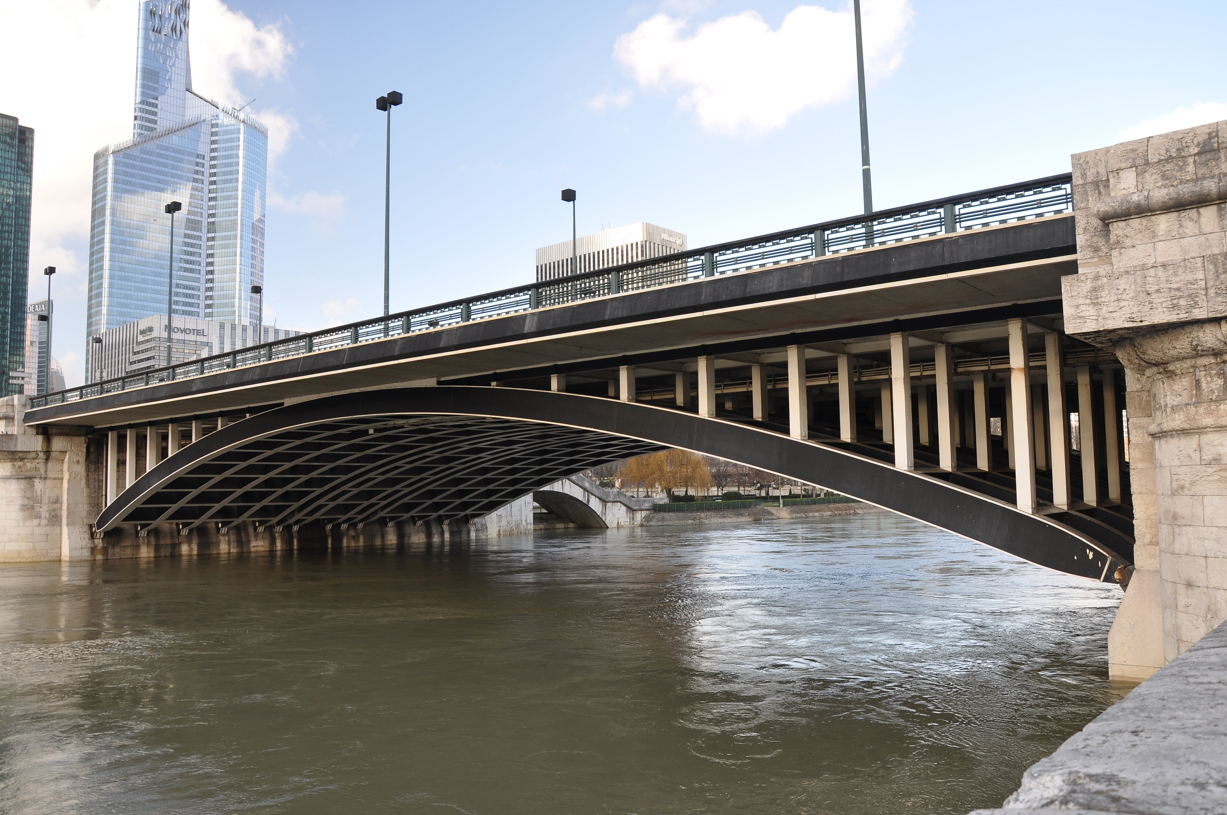 Neuilly Bridge over the Seine River in Neuilly-sur-Seine in the department of Hauts-de-Seine, France. View from the right bank of Seine River towards La Défense.